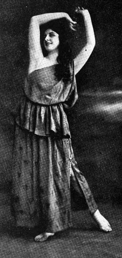 Lubov Tchernicheva, from a 1915 publication. A white woman dancer, smiling in a standing pose with her arms above her head.